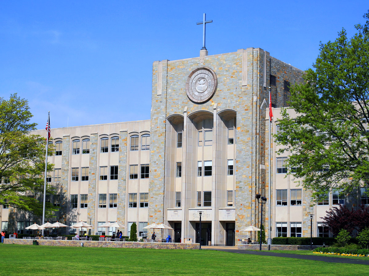 St. Augustine Hall located on St. John's University's Queens campus